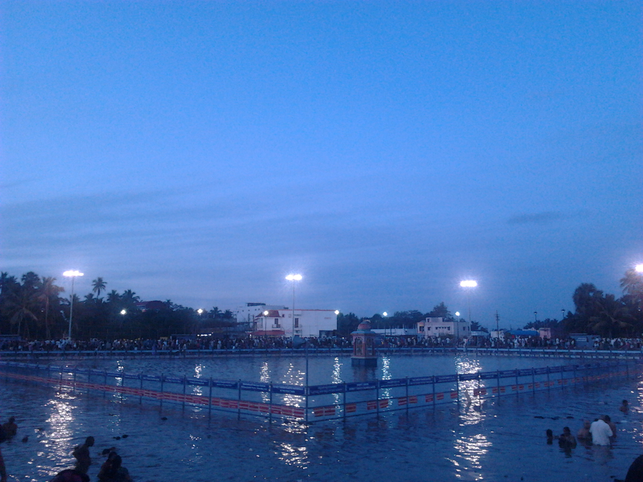 Photoed using Samsung Wave 525.